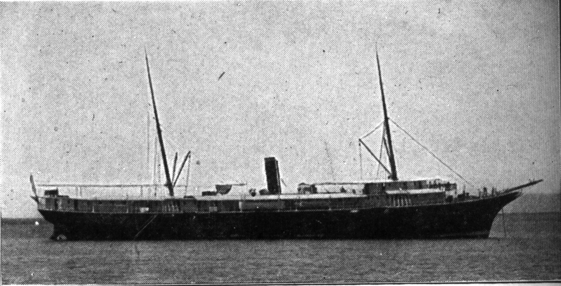 Chilean steamer Itata in San Diego Harbor